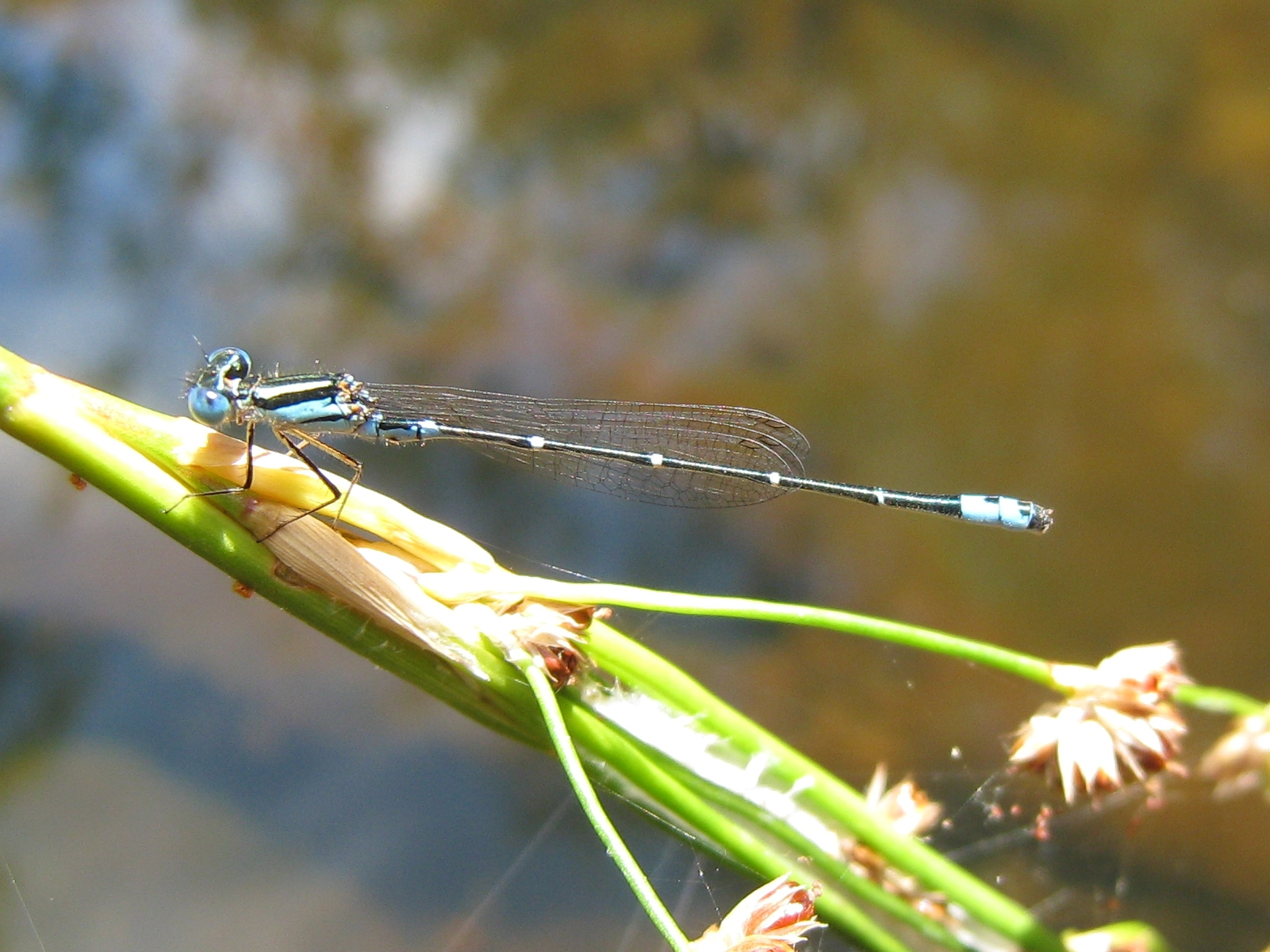 Eastern billabongfly, Austroagrion watsoni, showing black markings on segments 8 and 9 of abdomen. Heathcote Creek, Heathcote National Park, NSW Australia, January 2011.